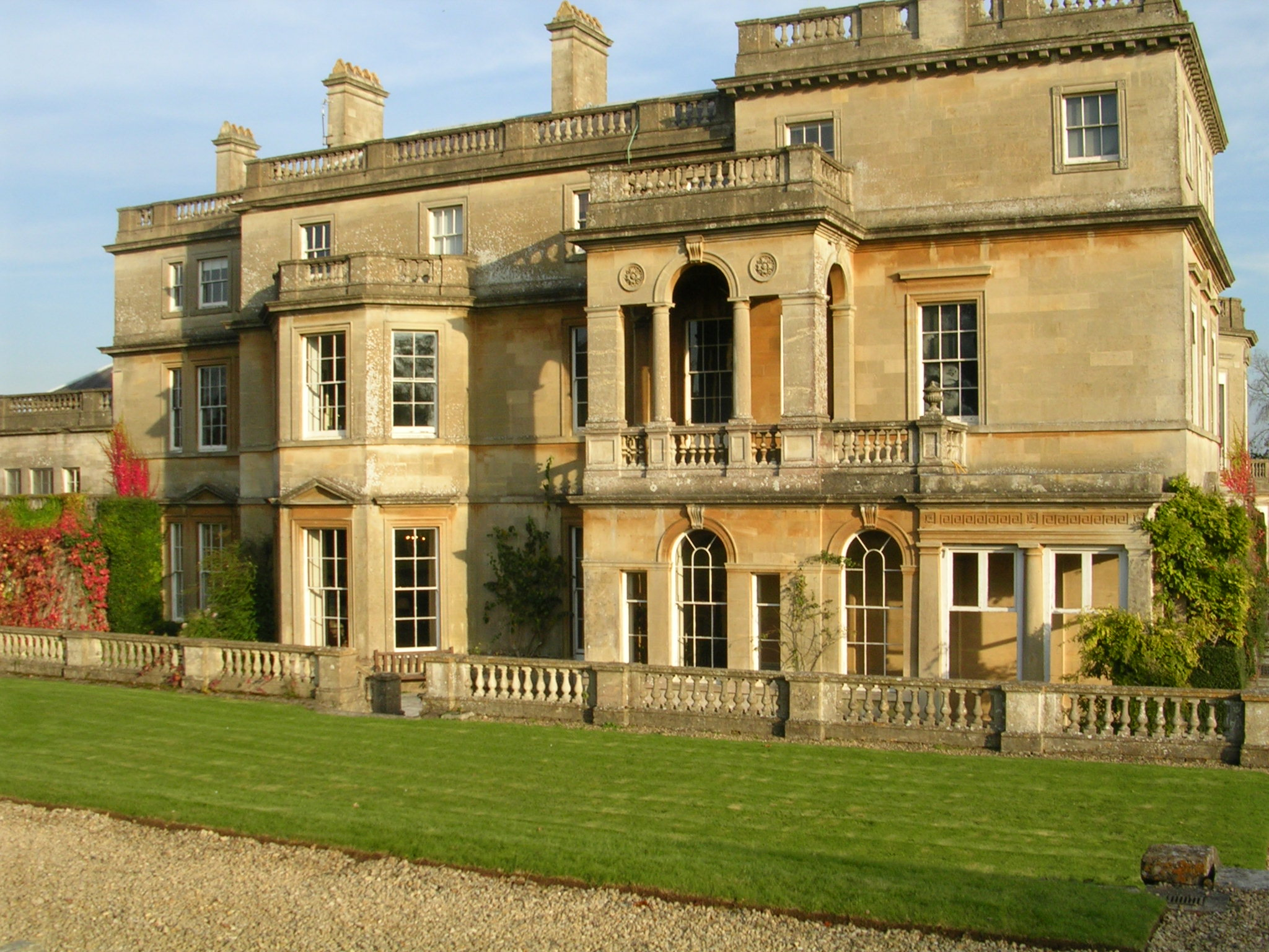 House in Wiltshire photographed by User:Giano who releases all rights into the public domain. 18th century mansion built of Bath stone, with Italianate alterations.